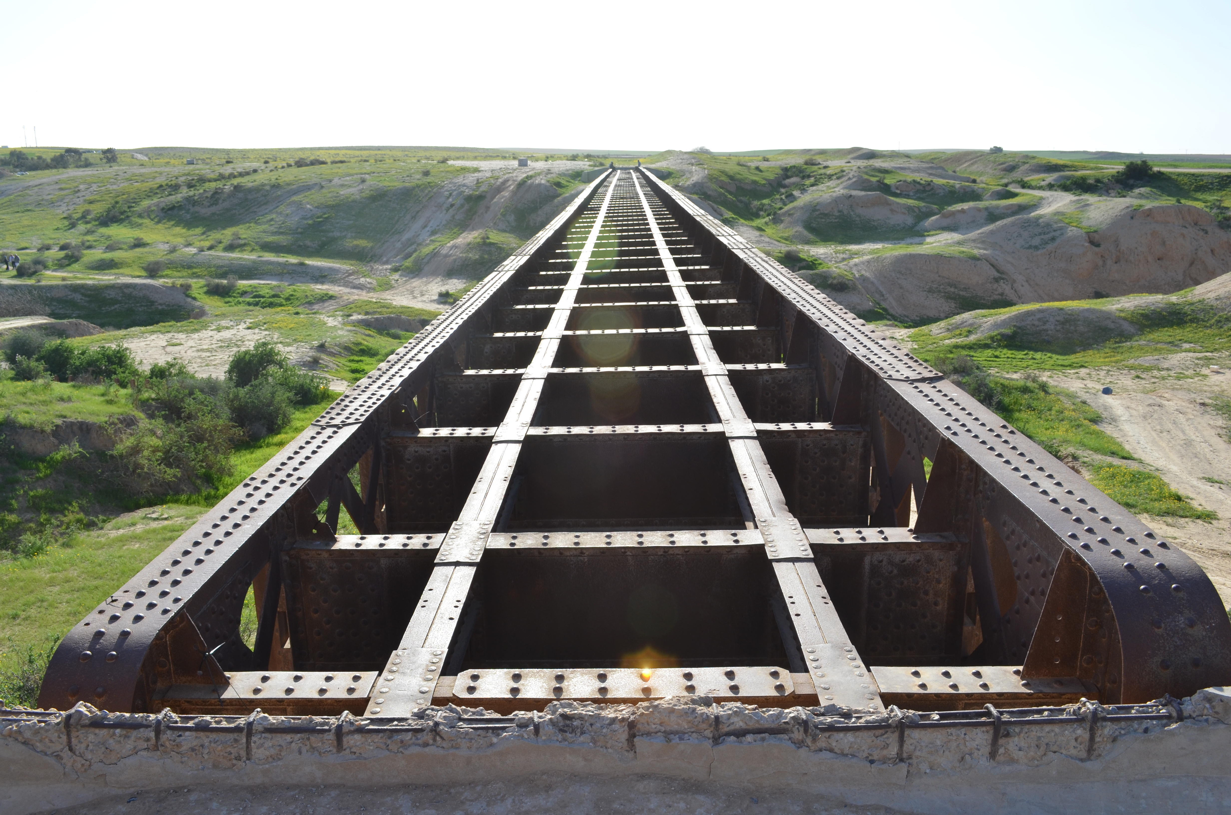 The bridge was built by the British Army during the First World War years after the occupation of Gaza.